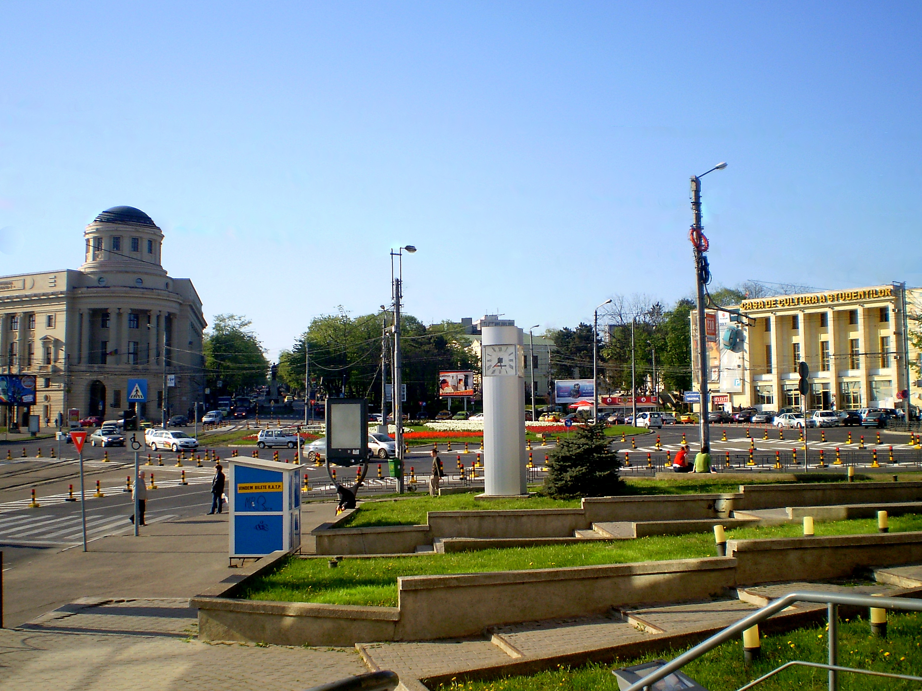 Mihai Eminescu Square in Iaşi , Iaşi , Romania